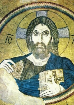 Dome mosaic "Christ Pantocrator" (11th century) from the Church of Daphne near Athens. The image was completed between 1090 and 1100.